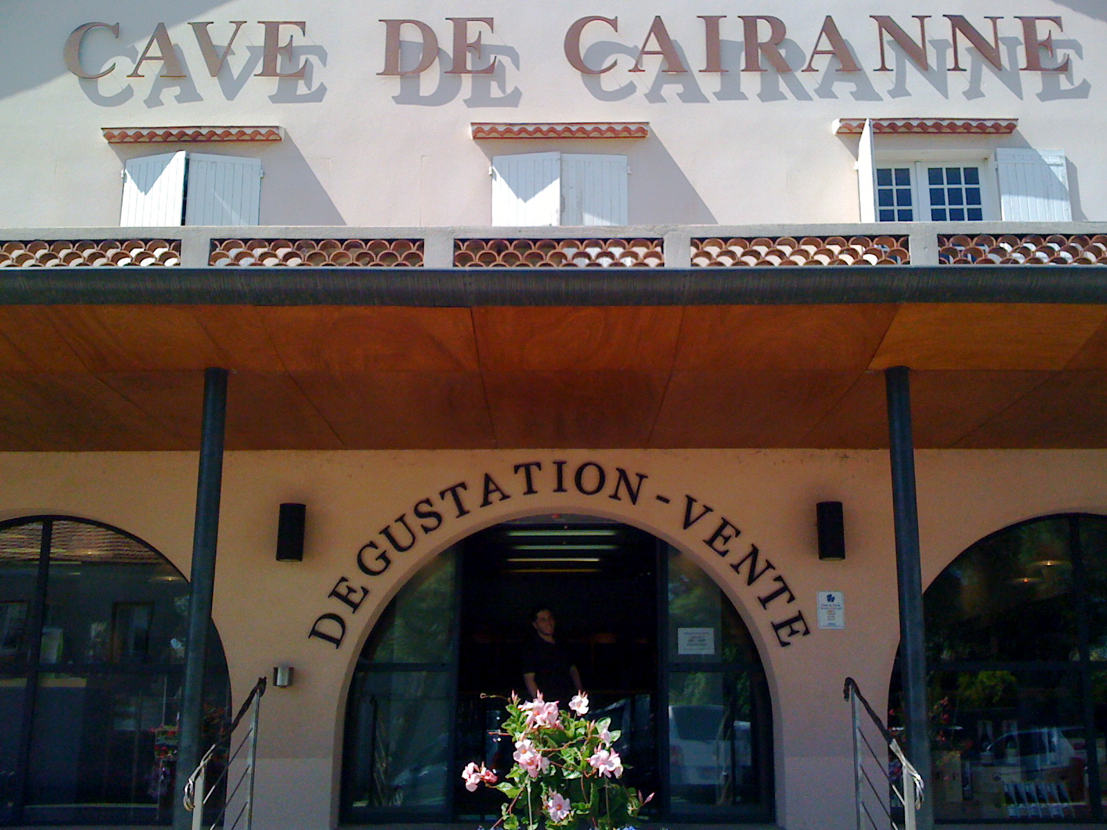 Cave of Cairanne